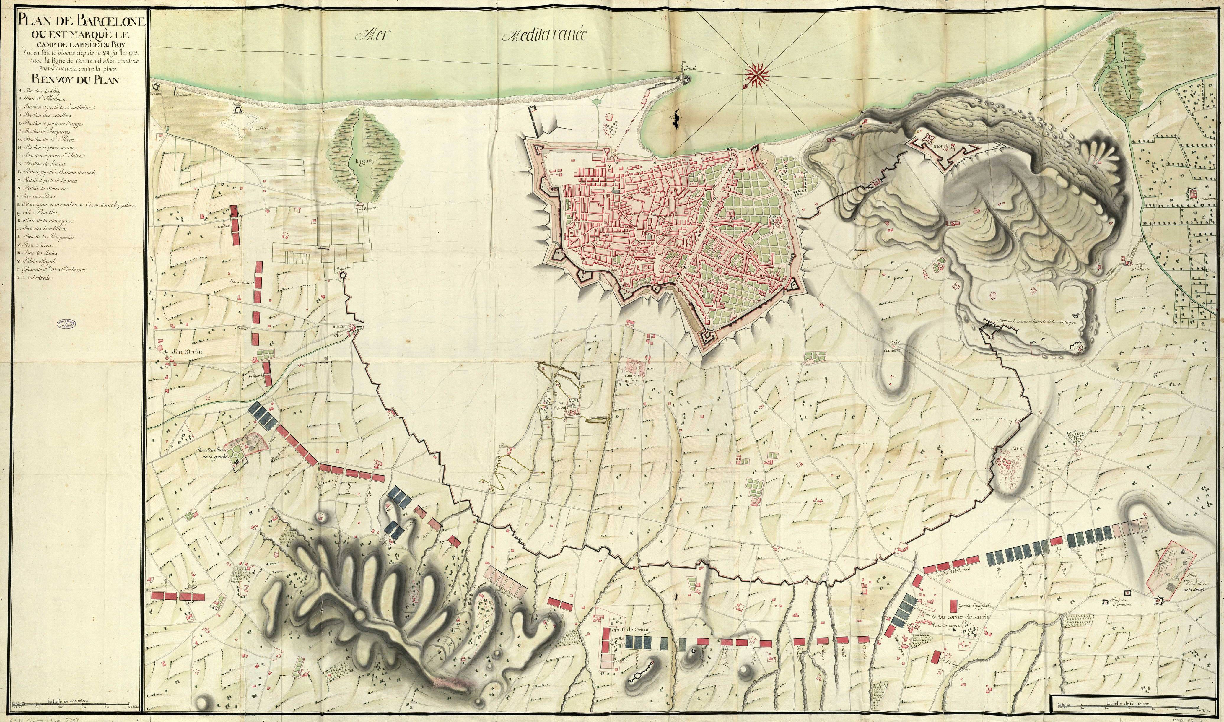 Plan de Barcelona ou est marqué le camp de l'armee du Roy qui en fait le blocus depues le 28 julillet 1713